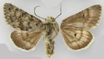 Lasionycta uniformis shasta male